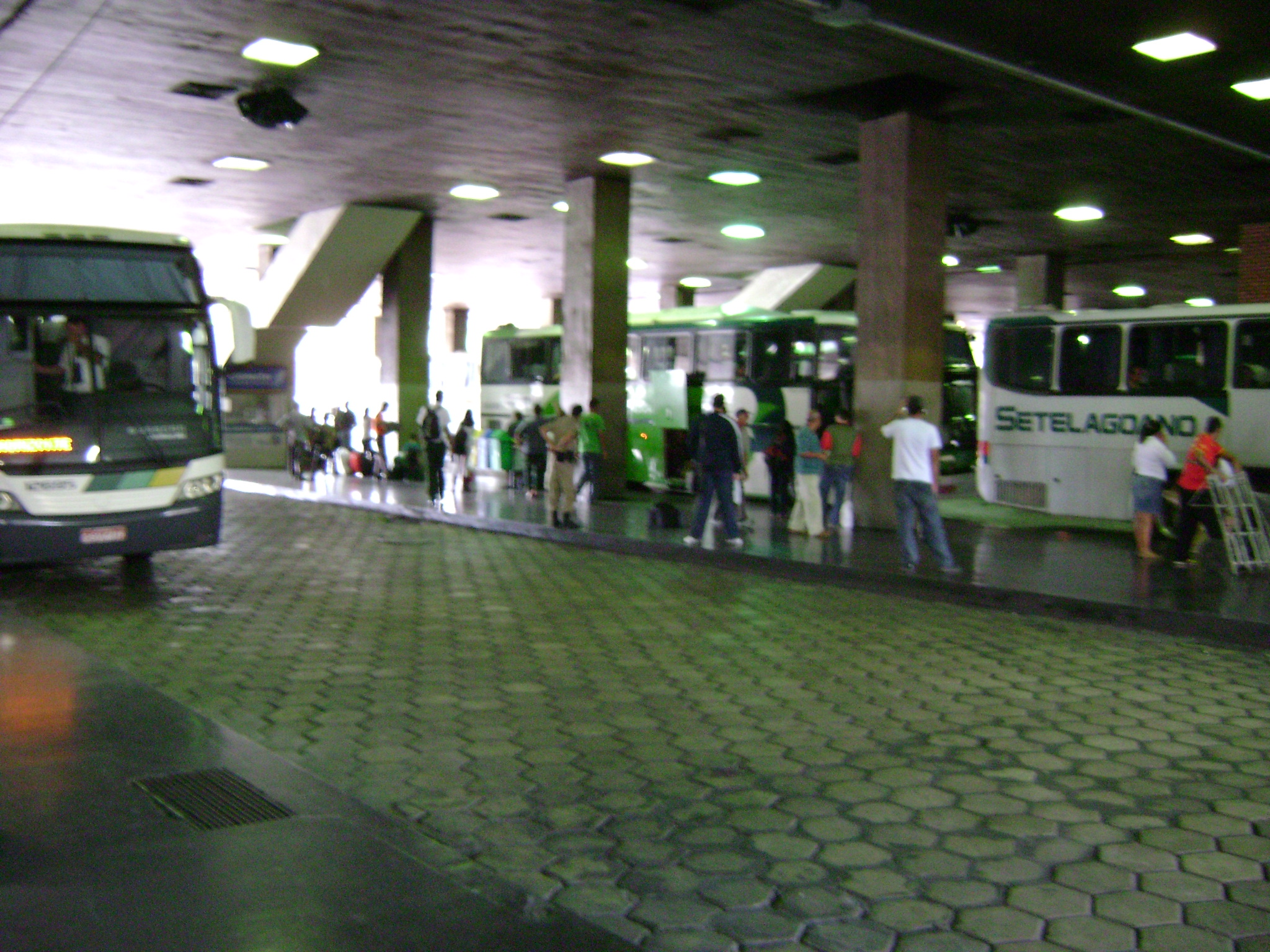 Terminal na rodoviária de Belo Horizonte, Minas Gerais, Brasil.